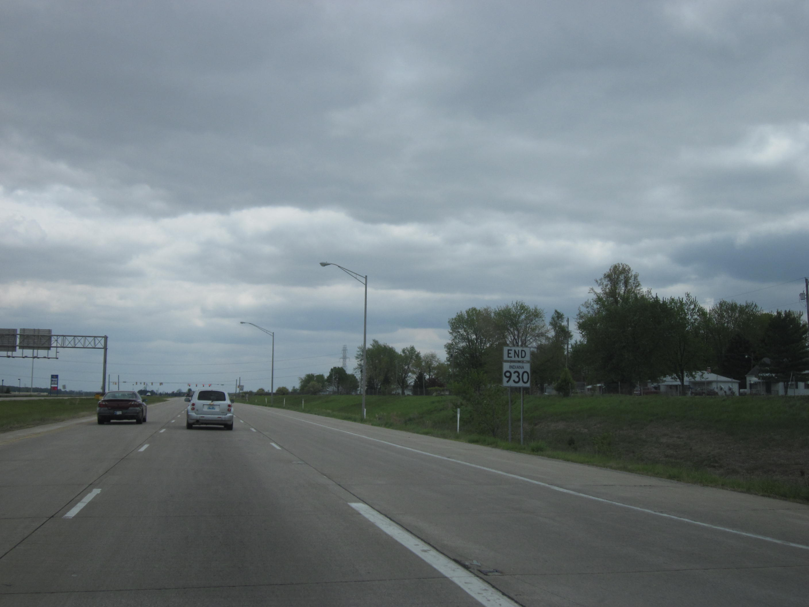 Indiana State Route 930 at eastern terminus near New Haven